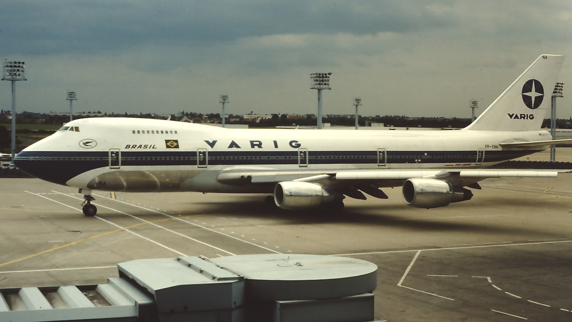 Boeing 747-2L5B registered PP-VNA of VARIG at Paris-Orly Airport (scan from slide)